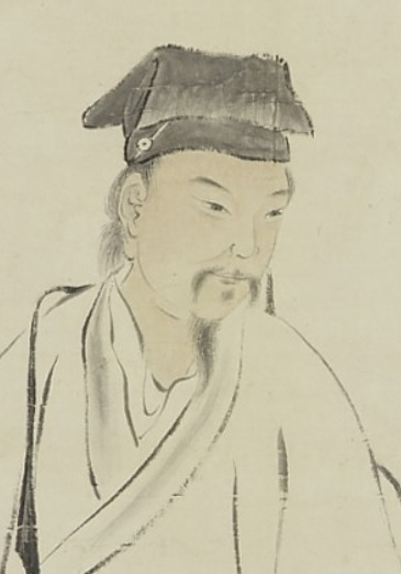 Detail Portrait of Tang Yin(1470-1523) by Hua Yan(1687-1756) Dated ACE1743 Freer and Sackler Garelly: Accession Number F1981.26 Ink and Color on Paper, Original Size 97.3hx41,8w